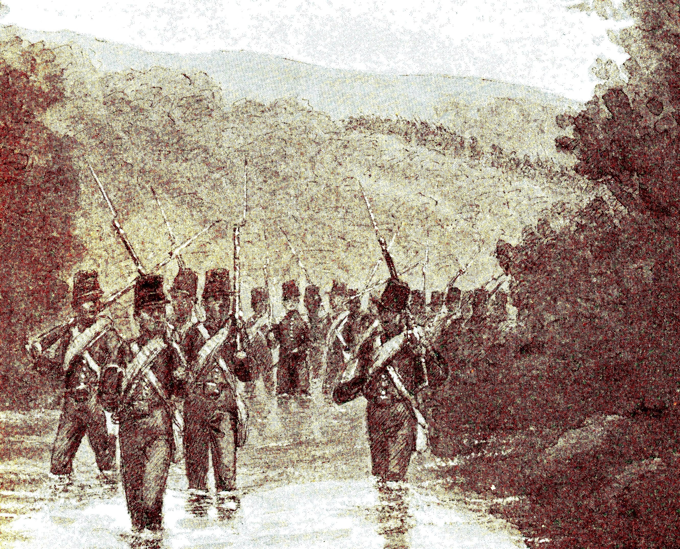 Mars van het zevende bataljon door de Sangsit